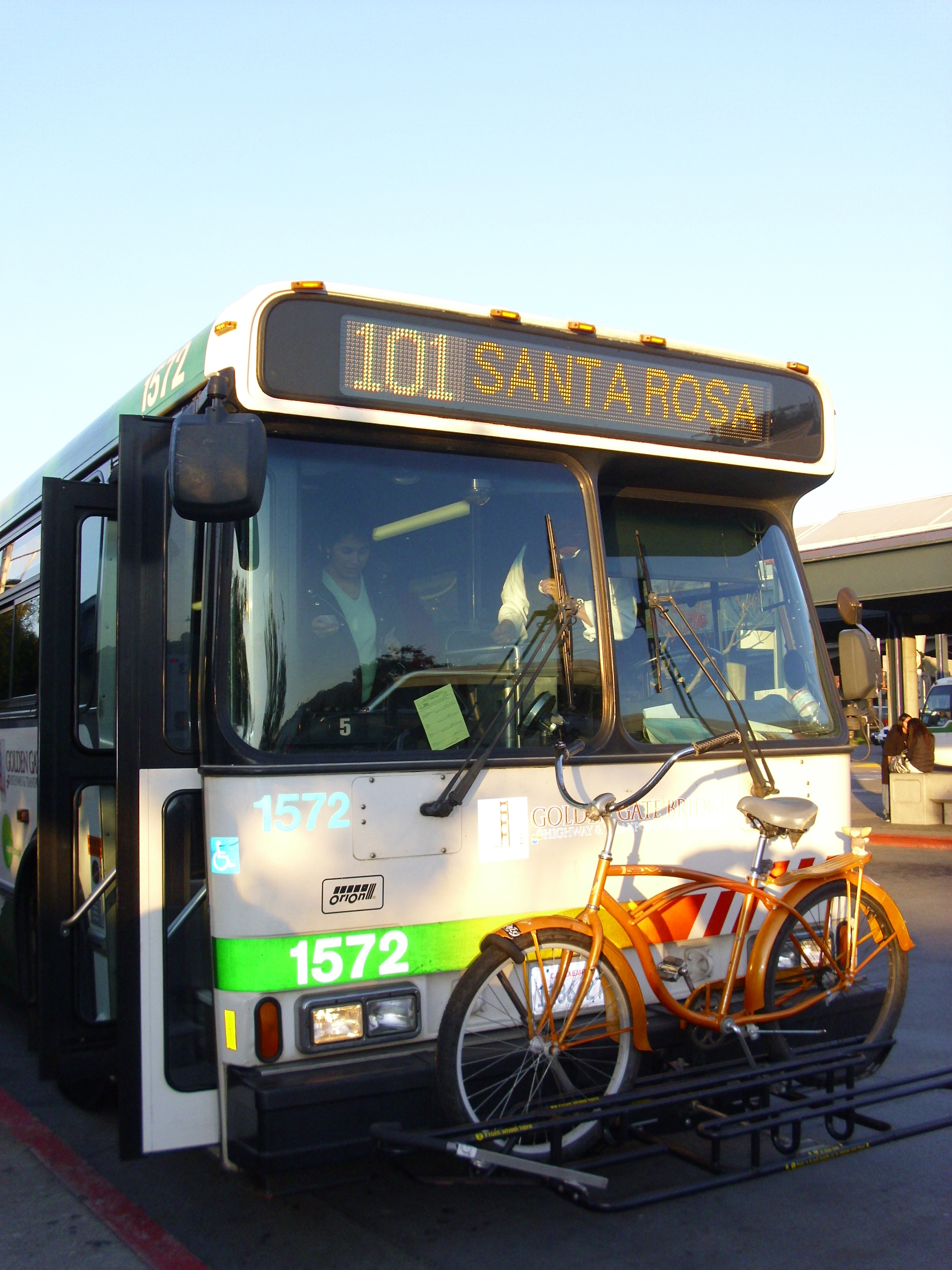 A Golden Gate Transit Orion V bus (body number 1572) operating as a Route 101 to Santa Rosa at the San Rafael Transit Center, San Rafael, CA.